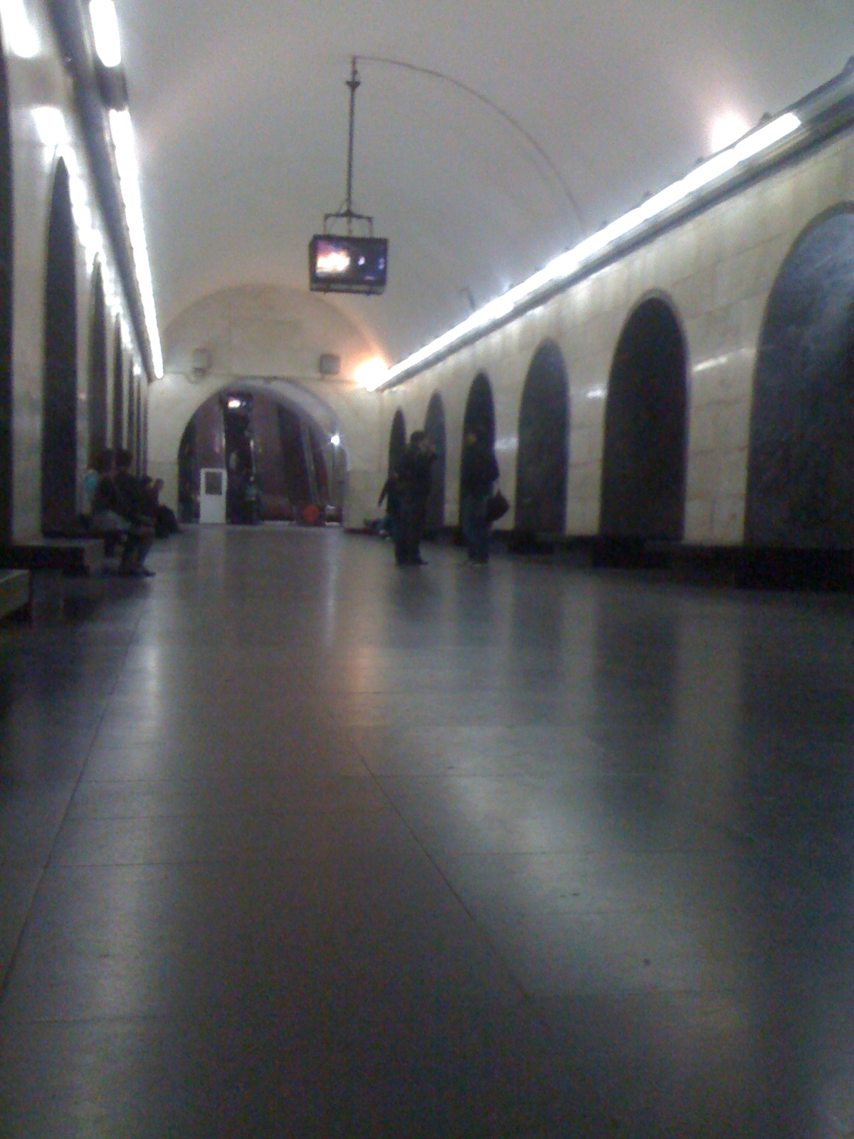 Metro station Mardzhanishvili